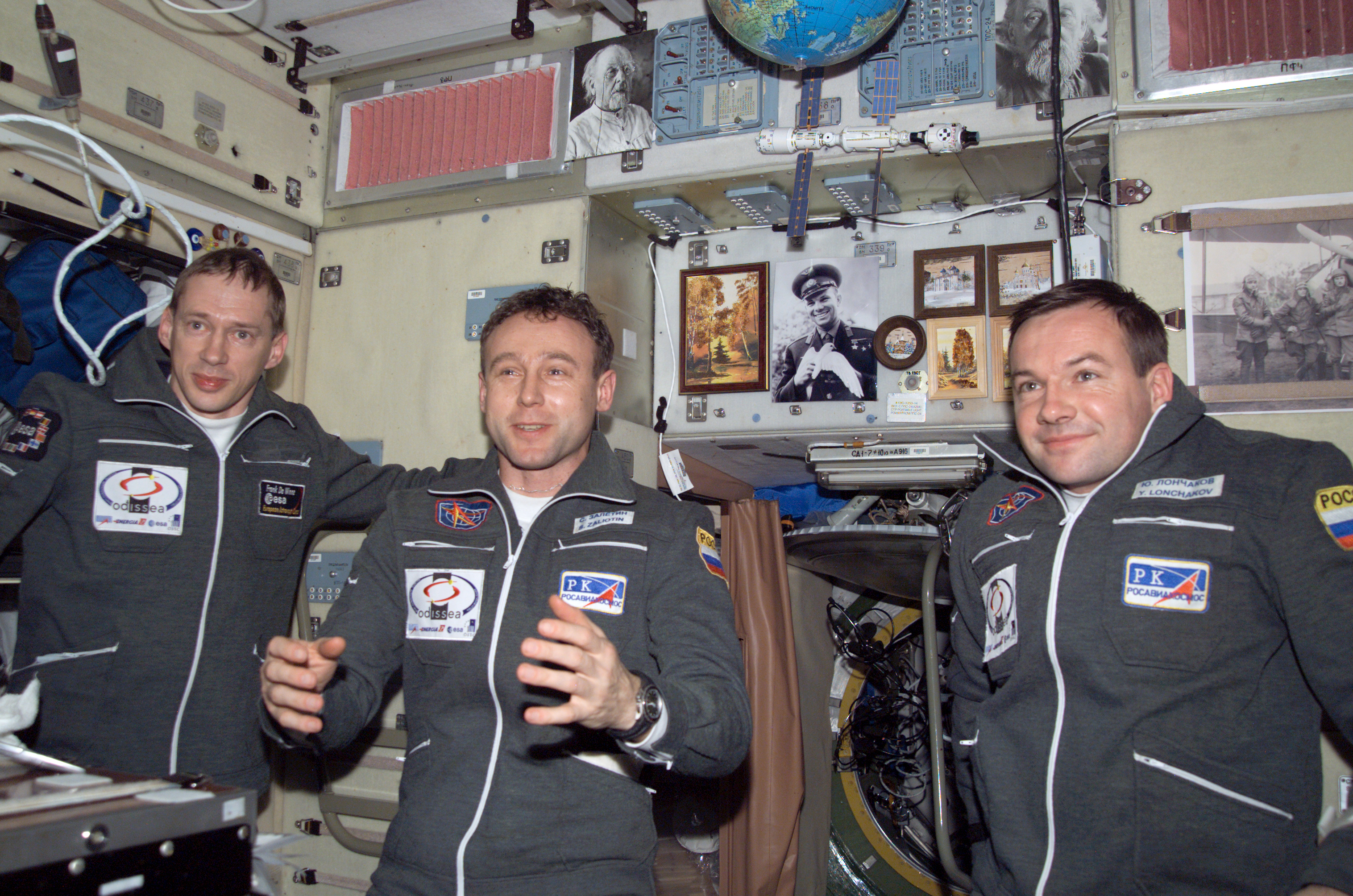 View of Soyuz 5 crew Belgian Flight Engineer Frank DeWinne left, of the European Space Agency ESA, Cosmonaut Soyuz Commander Sergei Zalyotin center and Cosmonaut Yuri Lonchakov, Flight Engineer in the Service Module SM/Zvezda during Expedition Five on the International Space Station ISS.